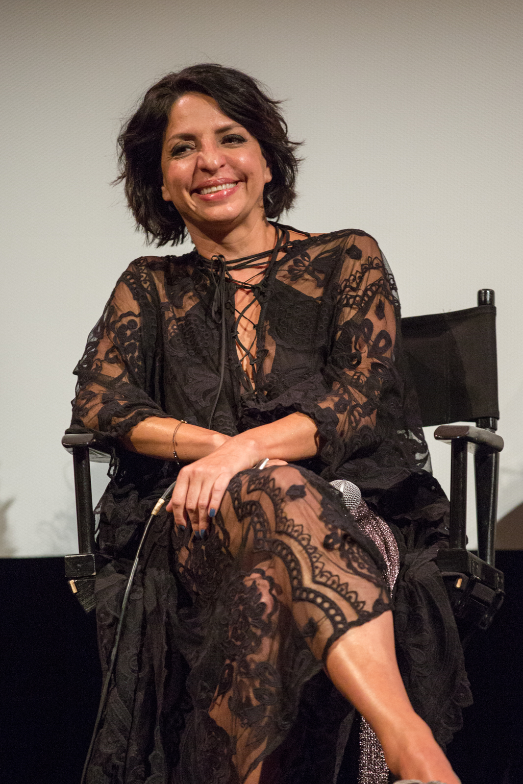 Veronica Falcón at the ATX Television Festival presentation of the TV show "Queen of the South"